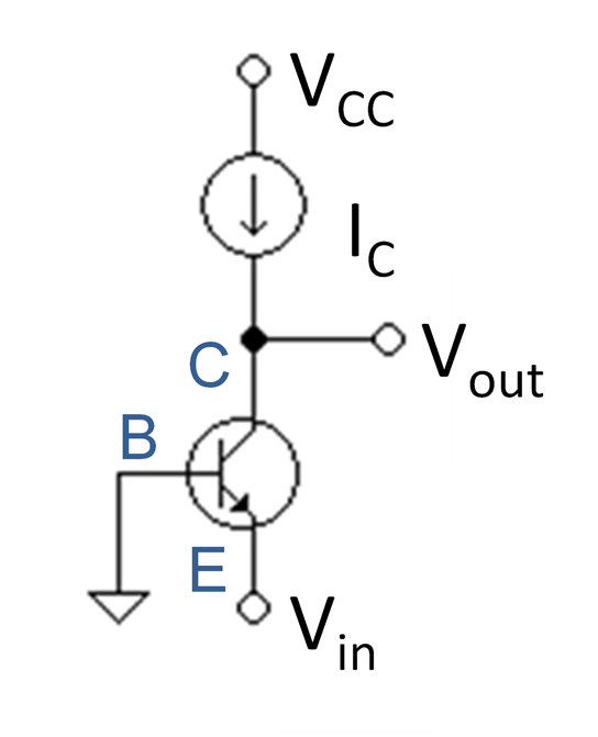 Common base circuit with active load